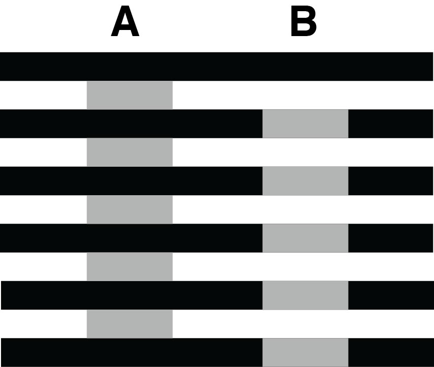 Rectangles A, on the left, look much darker than the rectangles B, on the right. However, rectangles A and B reflect the same amount of light. The rectangles at A and B appear different, even though they are printed from the same ink and reflect the same amount of light